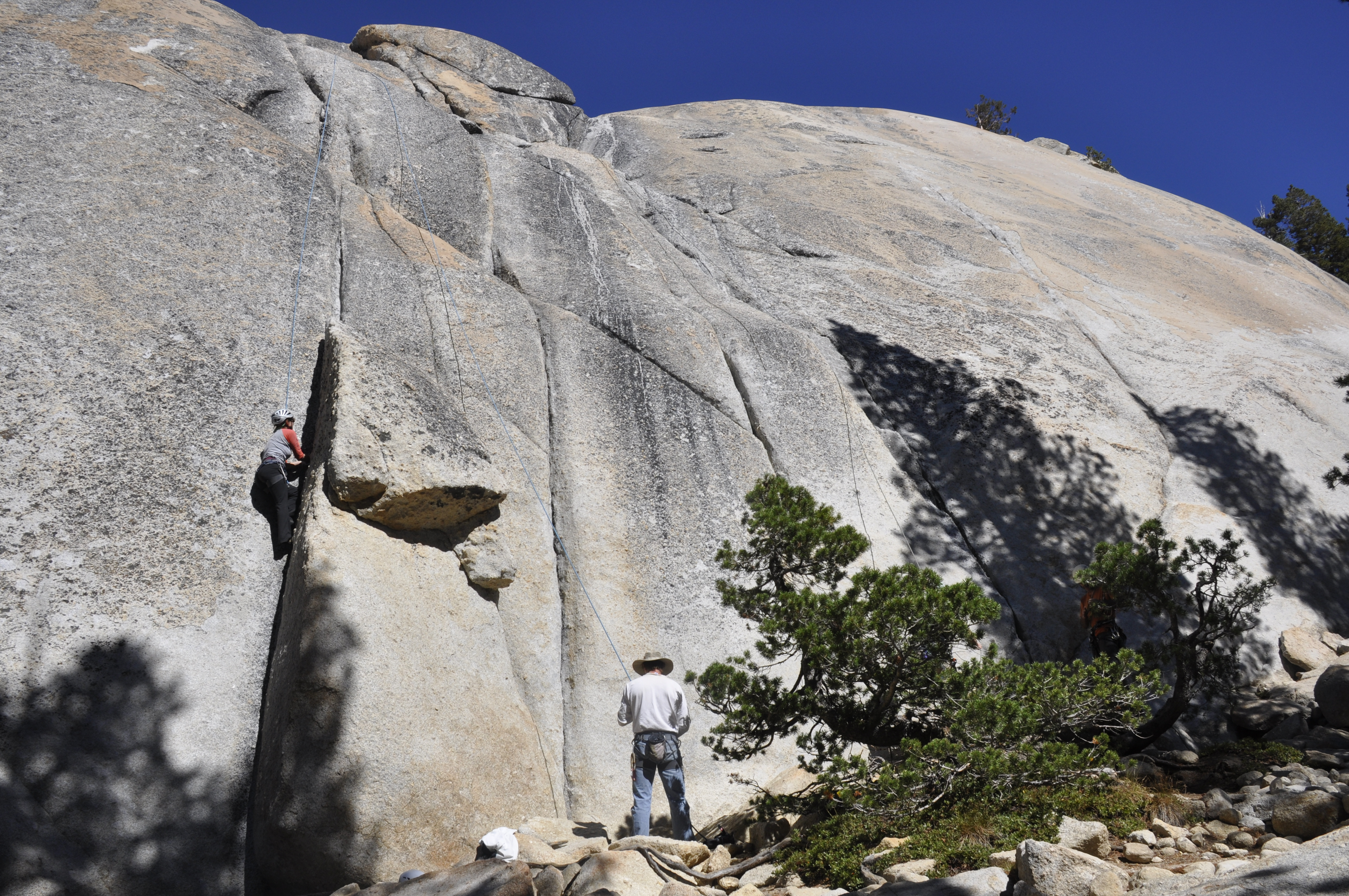 Tuolumne Meadows section of Yosemite National Park. Daff Dome - Guide Cracks